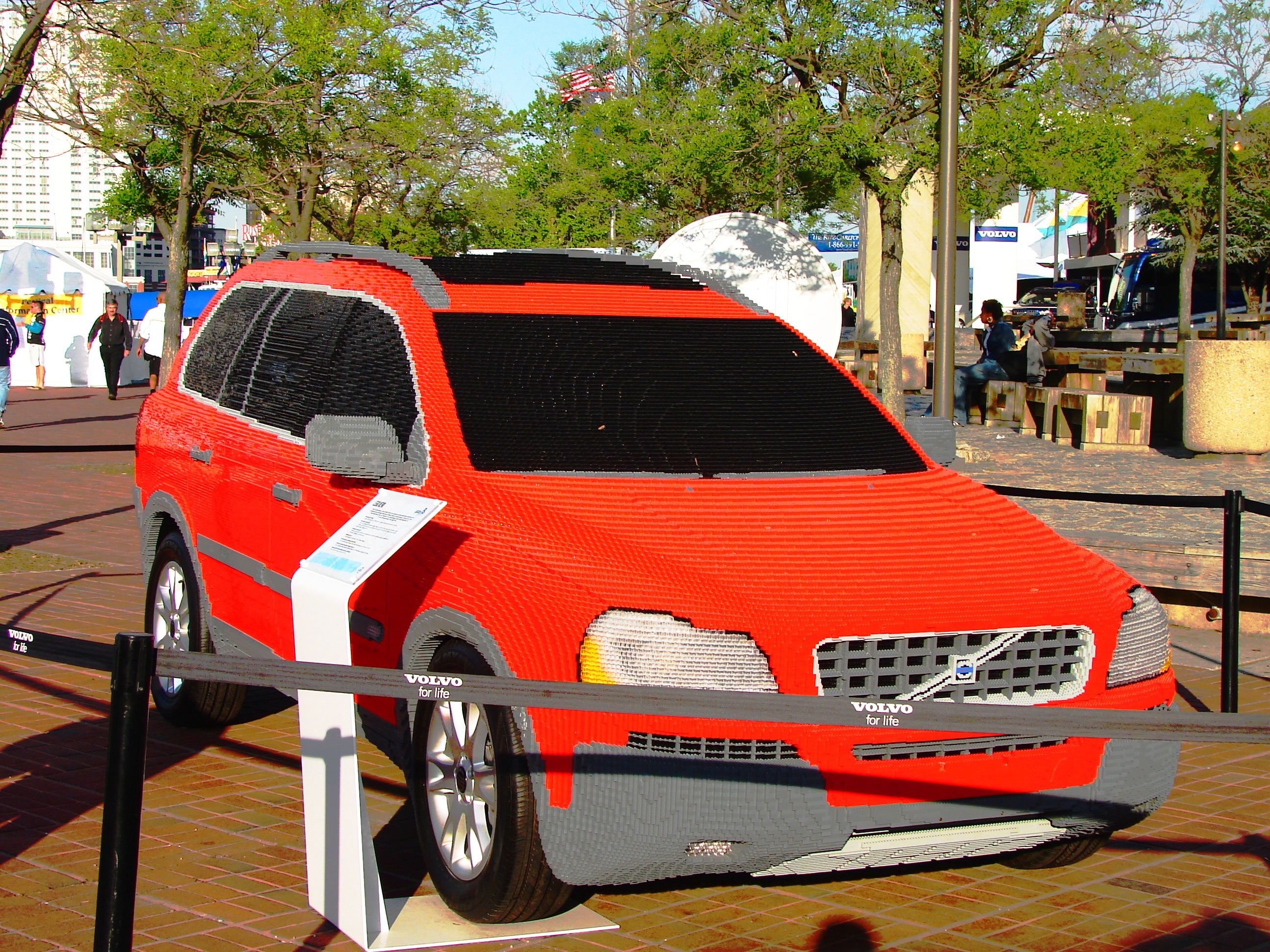 A Volvo car made of lego pieces on display at 2006 Volvo Ocean Race.